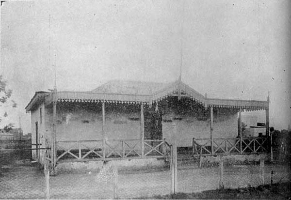 Argentine C.A. Vélez Sársfield stadium grandstands.